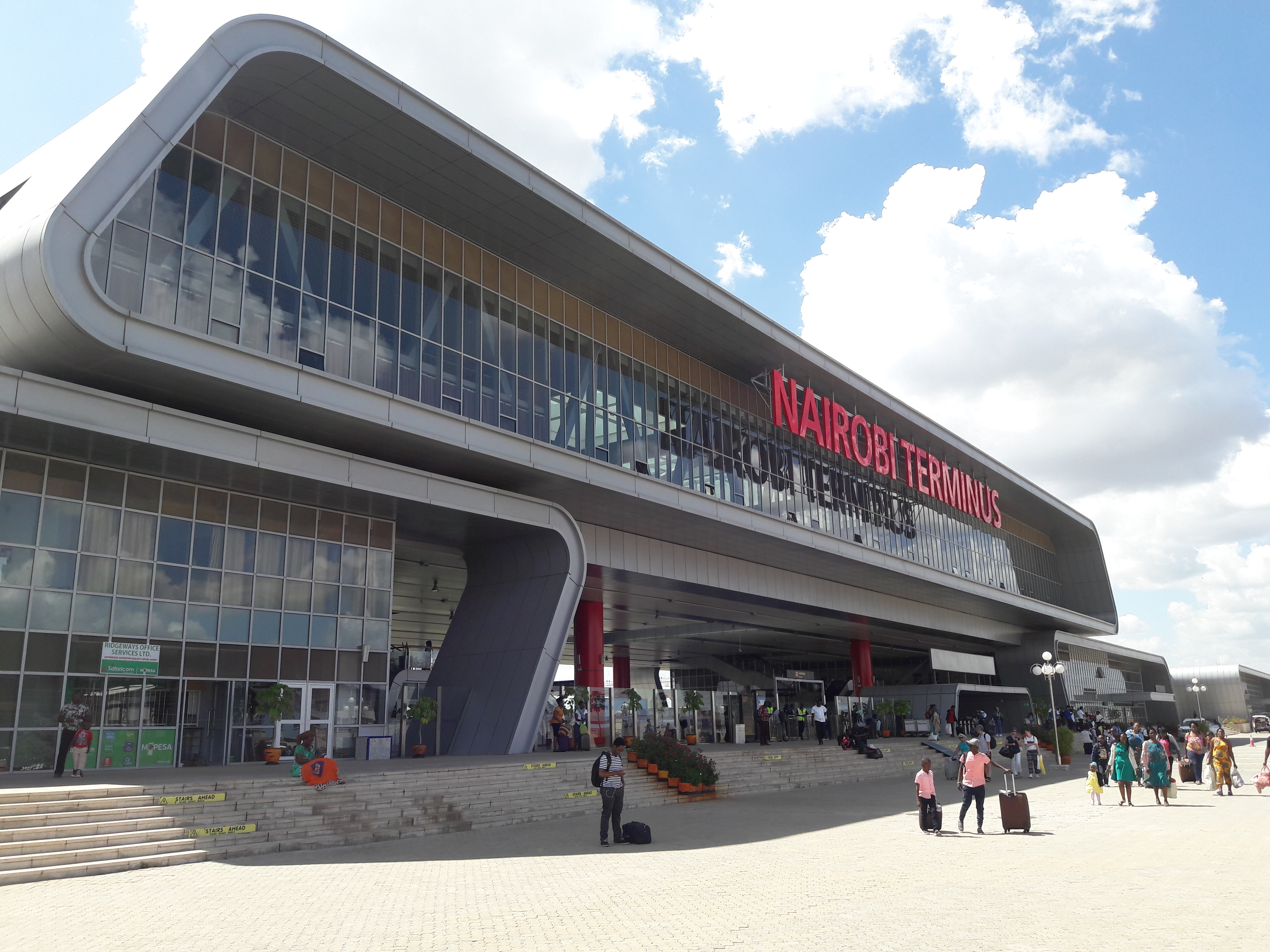 Nairobi Terminus is a railway station on the Mombasa–Nairobi Standard Gauge Railway (also known as 'Madaraka Express') located in Nairobi, the capital of Kenya.